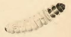 Stainton’s Natural History of the Tineina (1855–1873): Nemophora minimella